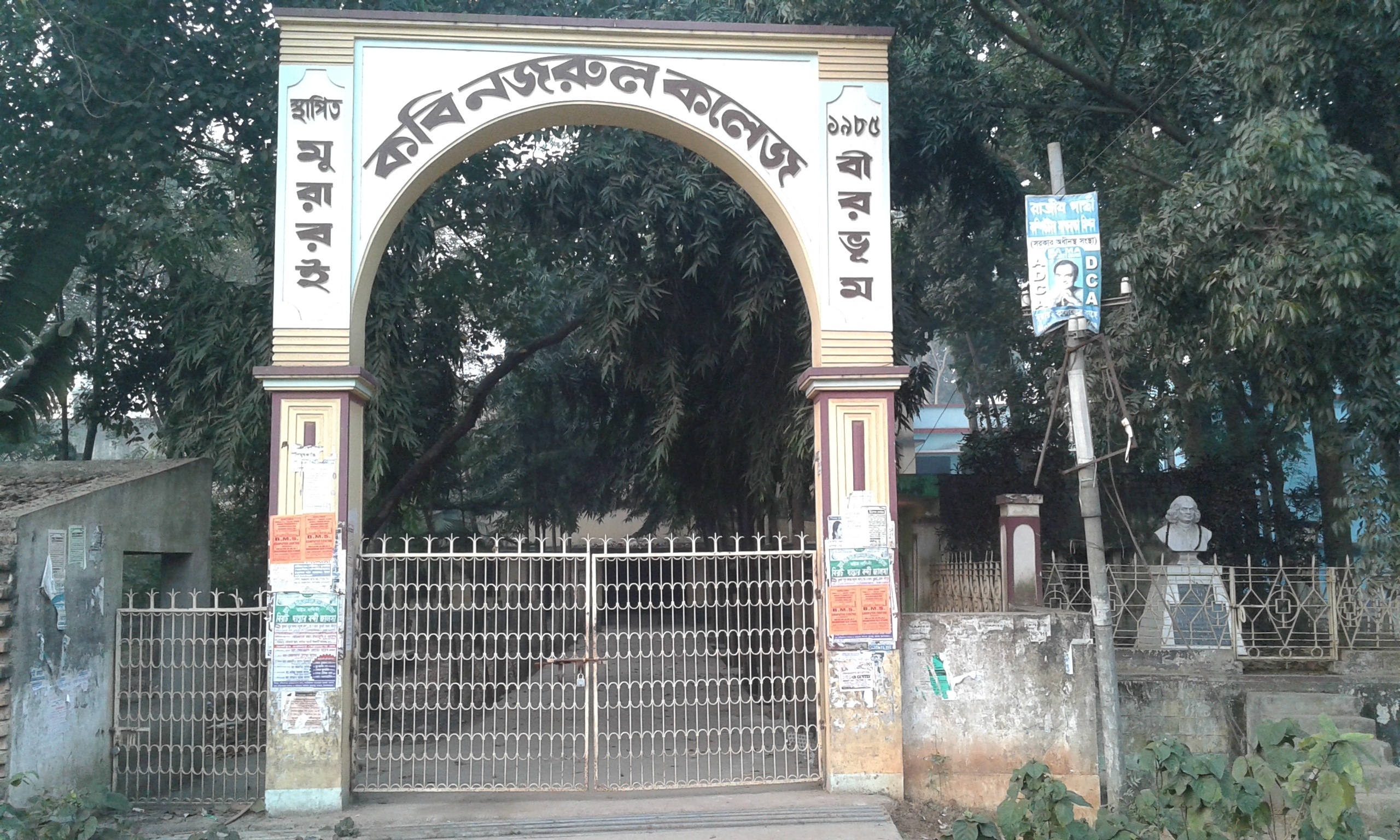 KABI NAZRUL COLLEGE FULL GATE PICTURE